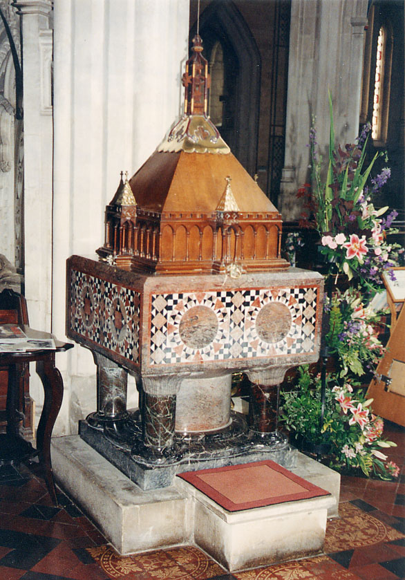 St Mary, Ottery St Mary, Devon - Font. A Butterfield font designed in 1850 - all the marble is from Devon and Cornwall. The cover is in a Byzantine style.